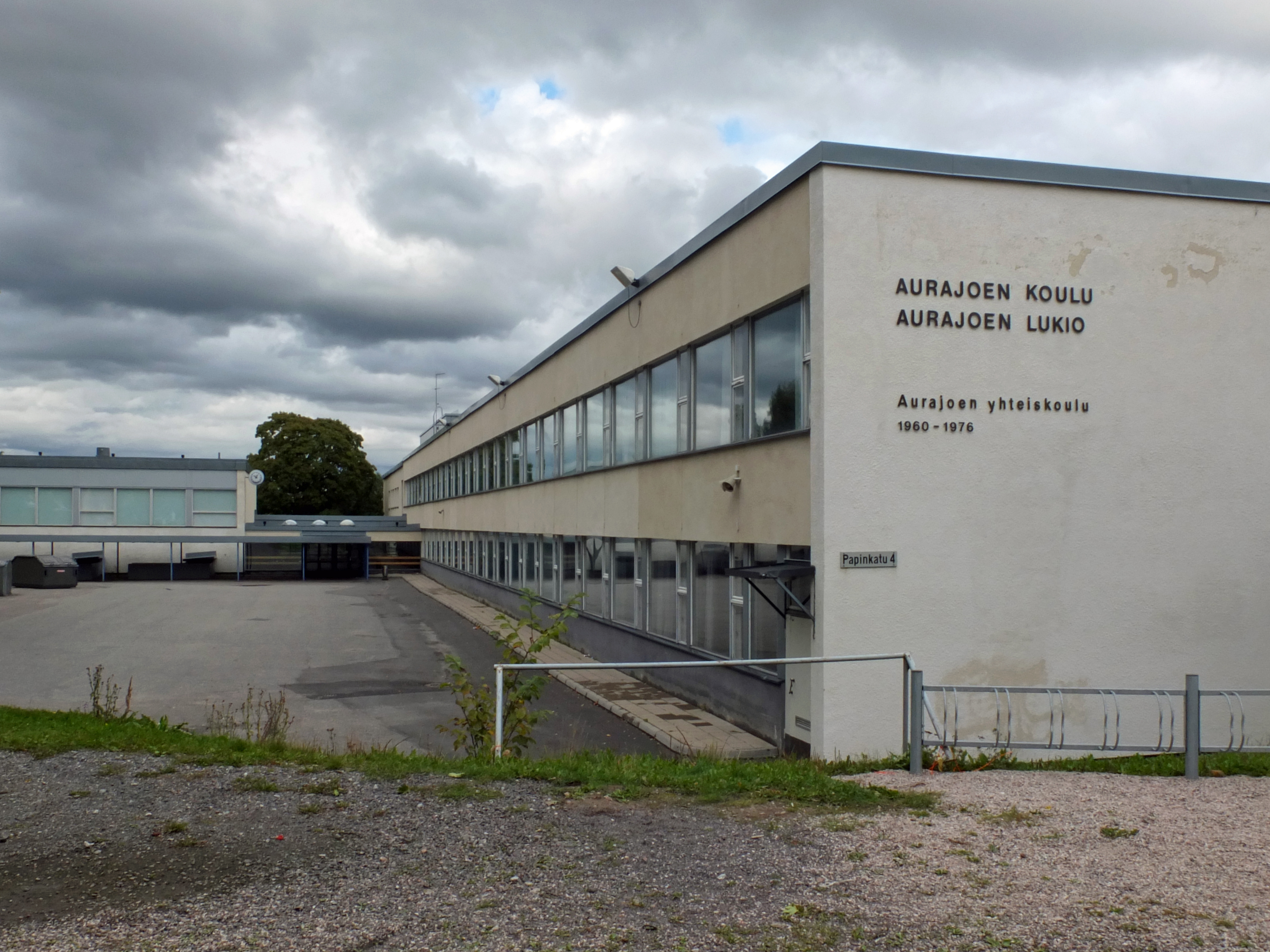 Aurajoen lukio high school, Turku, Finland. Address Papinkatu 4. Architect Pekka Pitkänen 1962, completed 1963, northern extension later.